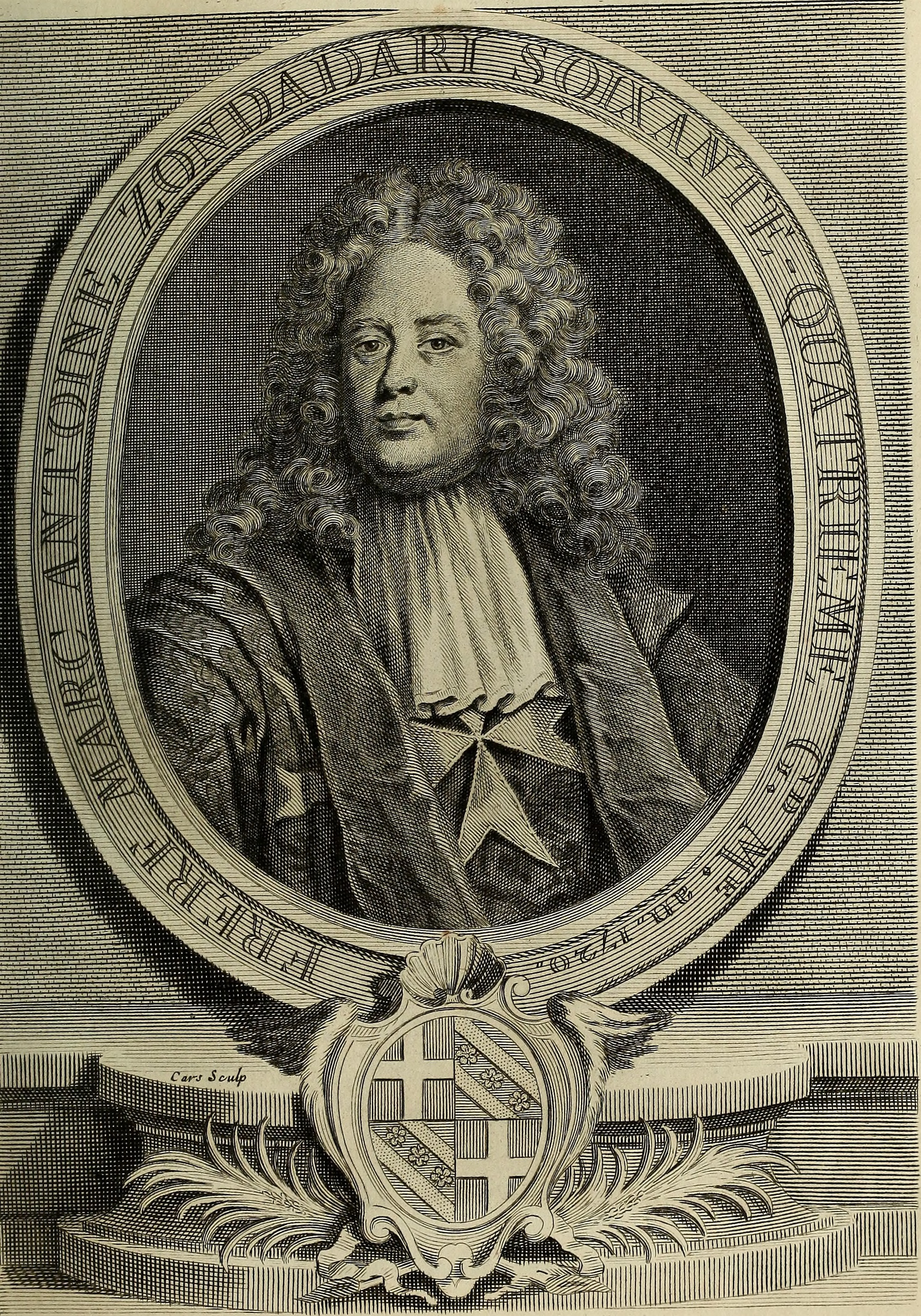 Title: Histoire des Chevaliers Hospitaliers de S. Jean de Jerusalem : appellez depuis les Chevaliers de Rhodes, et aujourd'hui les Chevaliers de Malthe Year: 1726 (1720s) Authors: Vertot abbé de, 1655-1735 Cavagna Sangiuliani di Gualdana, Antonio, conte, 1843-1913, former owner. IU-R Subjects: Knights of Malta Publisher: A Paris : Chez Rollin ... Quillau Pere & Fils ... Desaint ... Text Appearing Before Image: igne du Magiftere. La joye de cetteélection eft augmentée par le gain de deux gros: vaiffeauxeorfaires de Barbarie,quon ramené dansle même tems au port de lIfle. Ce fuccés eft fuivide prés, de la prife de lAmiral dAlger de quatre-vingt canons , & de 500 hommes déquipages. Le Bailli Ruffo eft nommé Général des galèresde la Religion. Le Grand Maître obtient un Brefdu Pape, qui oblige tous les Chevaliers qui ontplus de trois cens livres de revenu, dentretenir unfoldat, chacun à leurs frais, pour la fureté de rifle :mais on ne voit pas que ce Bref ait eu aucun effet. S 71 1. Lefcadre que le Grand Maître avoit accordéeau Roi dEfpagne pour la fureté de fes côtes, femet en mer fous les ordres du Bailli de Langon,ôc donne la chalTe à une galiote de Barbarie, quicroifoit le long des côtes de Sardaigne. On ne peutlatteindre -, mais on lui enlevé un pinque quelleavoit pris depuis peu fur les Chrétiens. Le vaif-feau Saint Jean monté par le Commandant, ren-contre &4 Text Appearing After Image: '